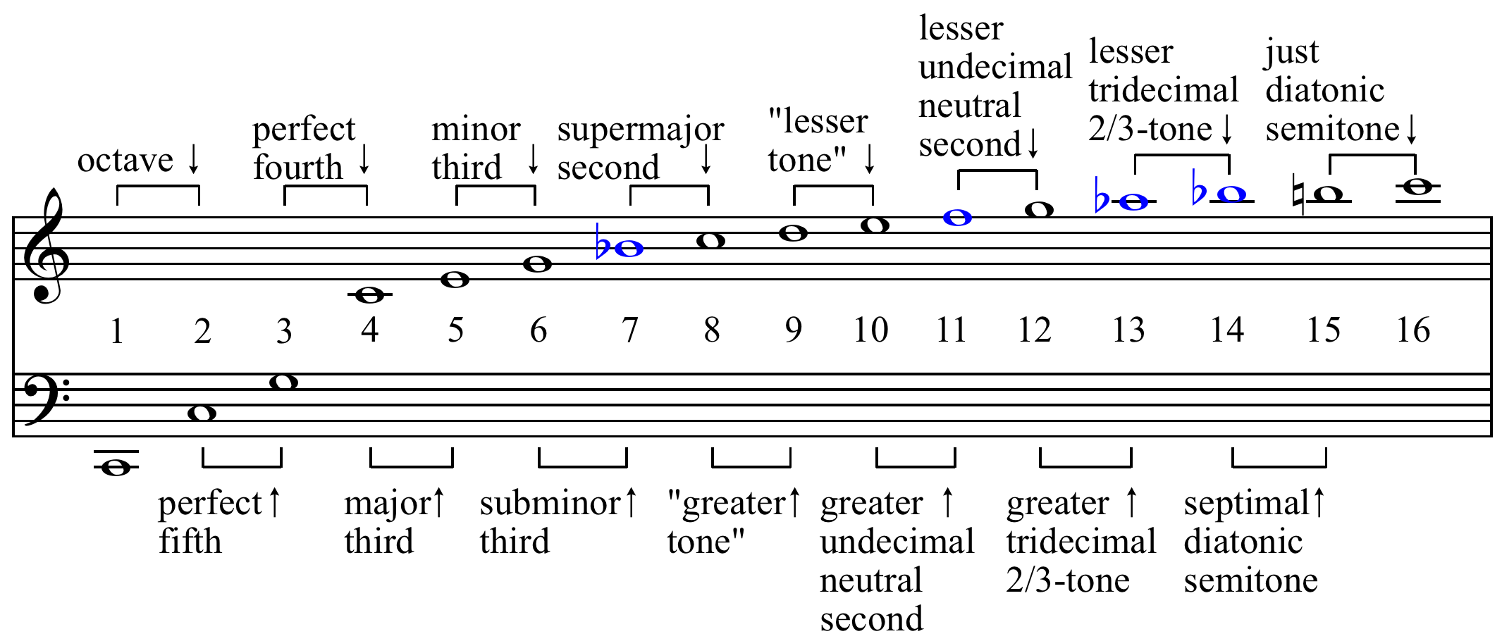 Harmonic series with intervals labeled. Blue notes differ significantly from equal temperament, though all notes (but 1, 2, 4, 8, and 16) differ some. Source for image with only subminor third, supermajor second, and greater and lesser tone labels: Leta E. Miller and Fredric Lieberman (Summer, 1999). "Lou Harrison and the American Gamelan", p.162, American Music, Vol. 17, No. 2, pp. 146-178. Other labels added by Hyacinth (talk). Created by Hyacinth (talk) using Sibelius. External use